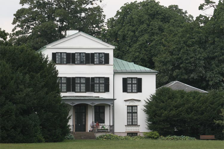 The country house Øregaard, now an art museum. Located in Hellerup north of Copenhagen, Denmark